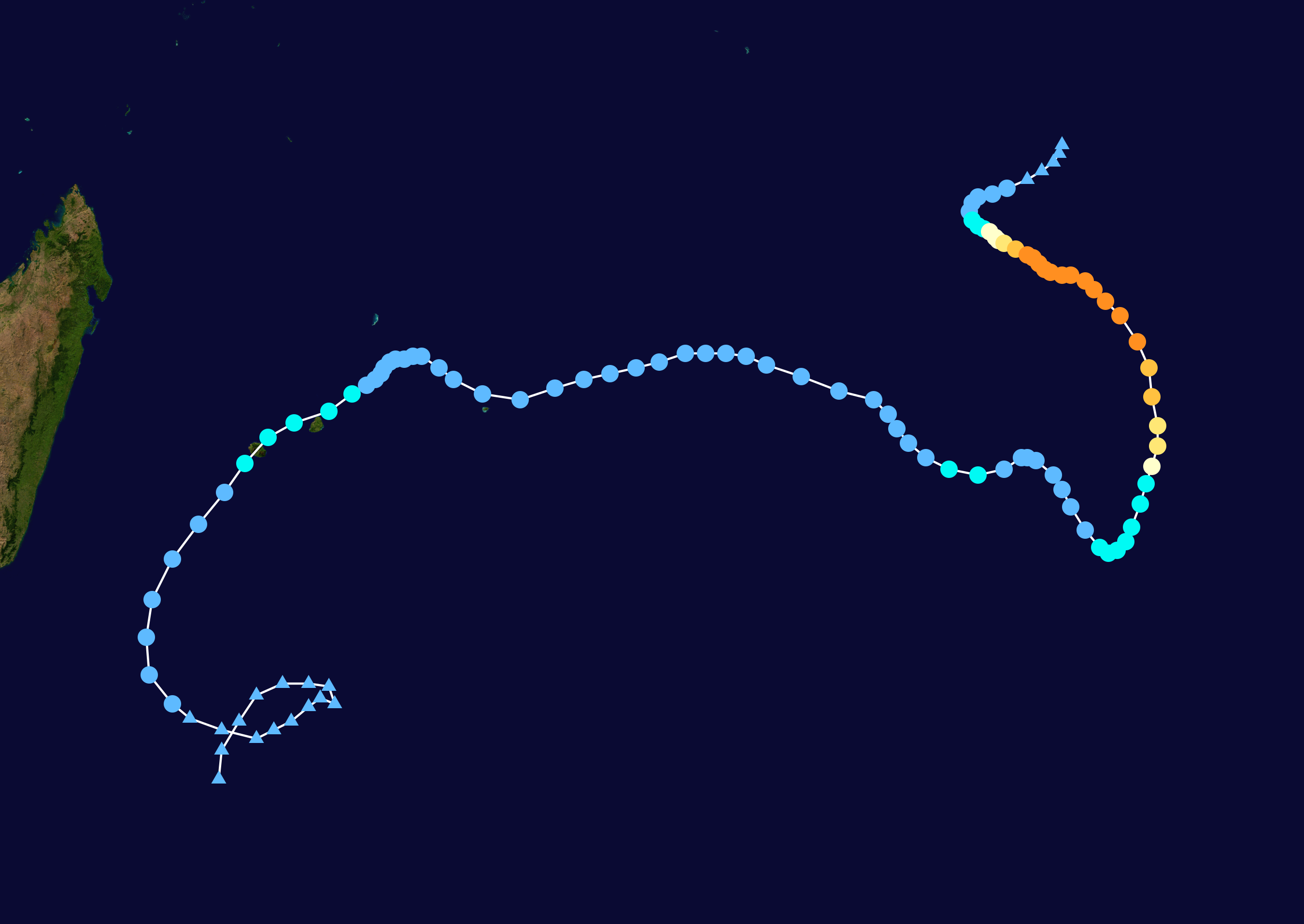 Track map of Intense Tropical Cyclone Hondo of the 2007-08 South West Indian Ocean cyclone season. The points show the location of the storm at 6-hour intervals. The colour represents the storm's maximum sustained wind speeds as classified in the Saffir–Simpson scale (see below), and the shape of the data points represent the nature of the storm, according to the legend below. Saffir–Simpson scale Tropical depression≤38 mph≤62 km/h Category 3111–129 mph178–208 km/h Tropical storm39–73 mph63–118 km/h Category 4130–156 mph209–251 km/h Category 174–95 mph119–153 km/h Category 5≥157 mph≥252 km/h Category 296–110 mph154–177 km/h Unknown Storm type Tropical cyclone Subtropical cyclone Extratropical cyclone / Remnant low / Tropical disturbance / Monsoon depression